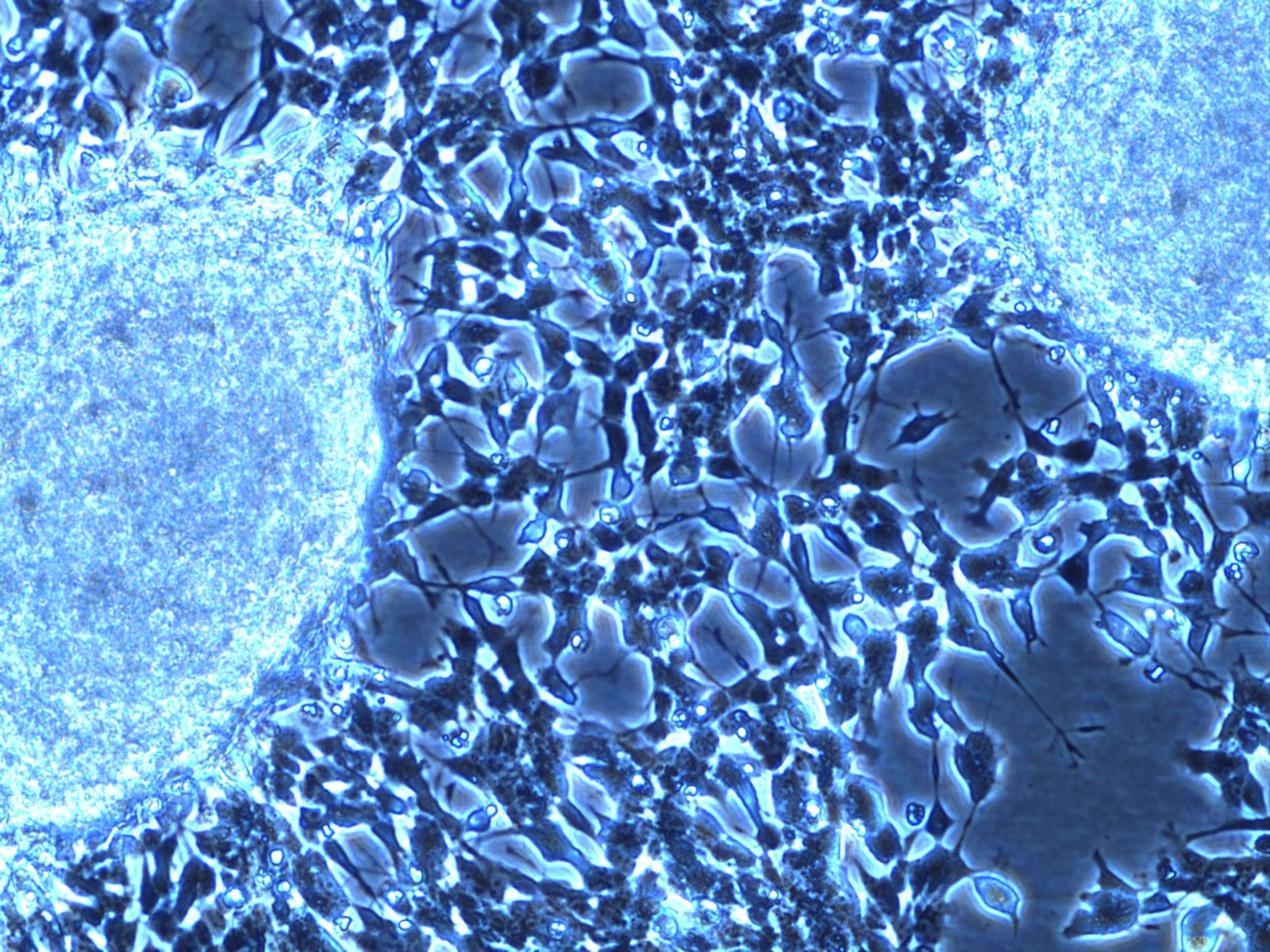 This photo illustrates the growth pattern of the SH-SY5Y neuroblastoma cell line. Author: Reid Offringa Iamnotanorange